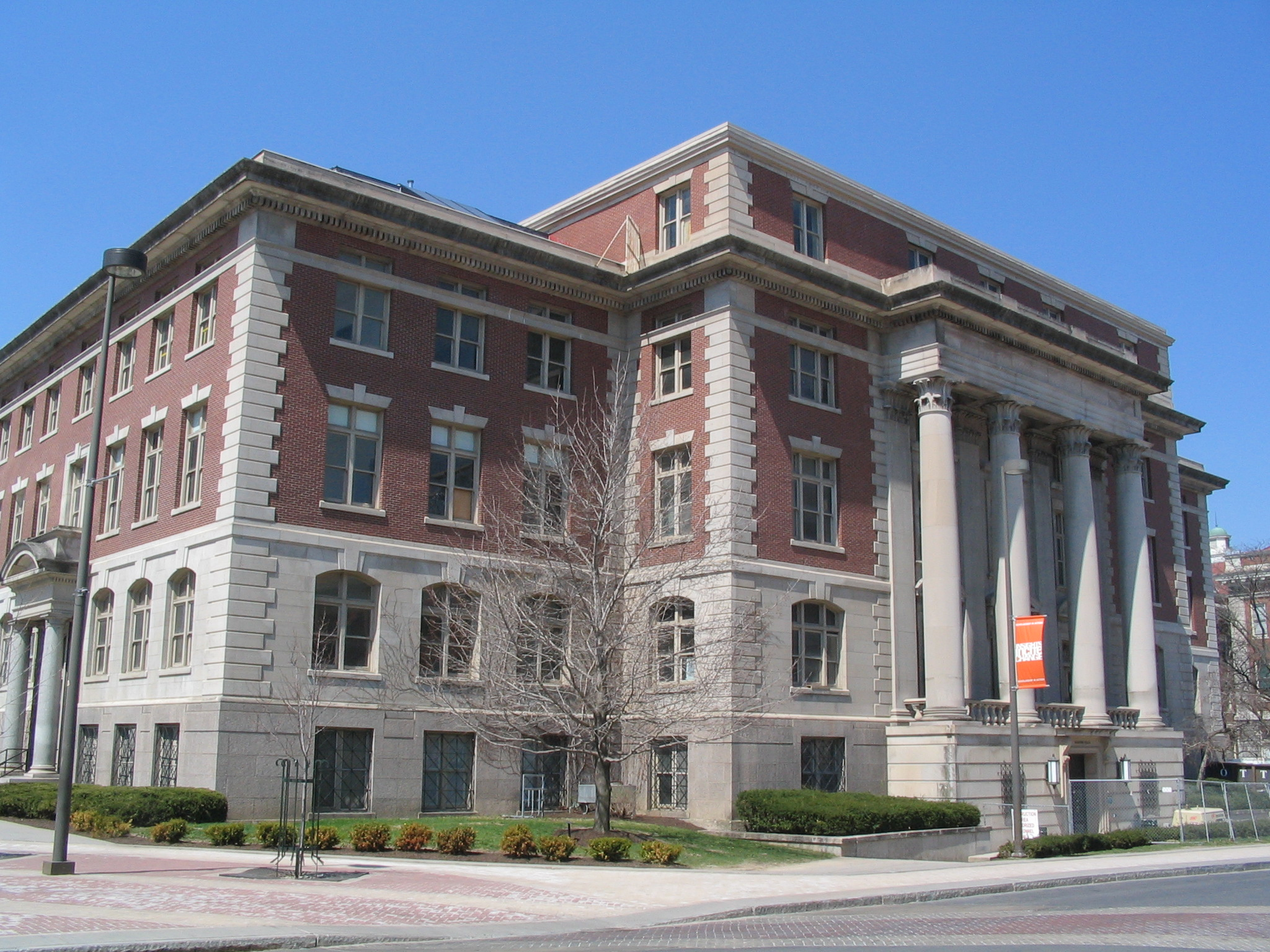 This is an image of Slocum Hall that I took with my digital camera. This building is located on Syracuse University.